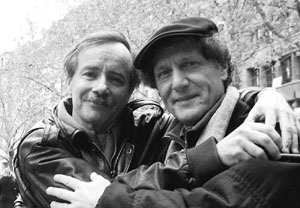 Barrigue & Burki